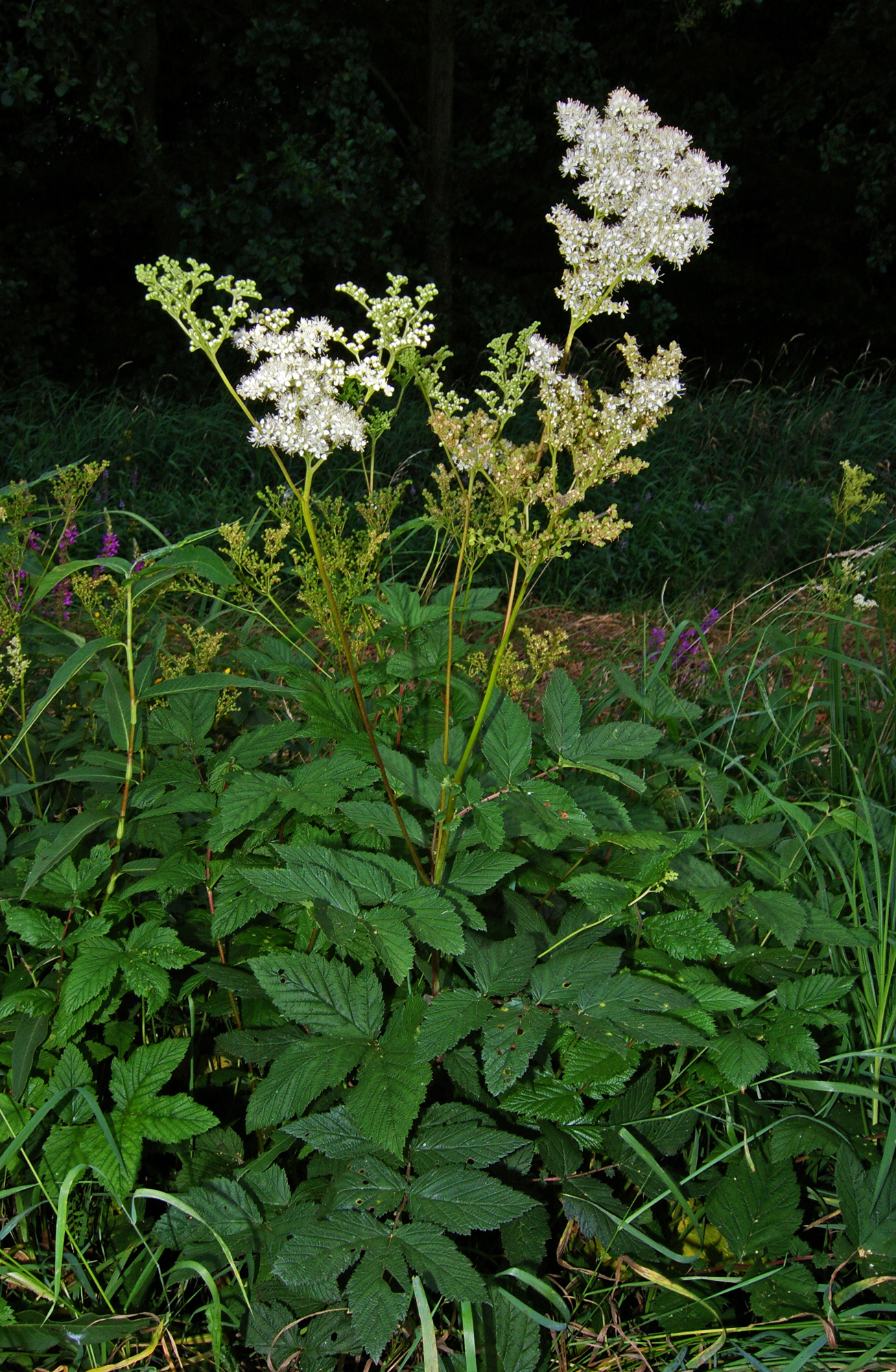 Habitus of flowering Meadowsweet, Filipendula ulmaria (Rosaceae).